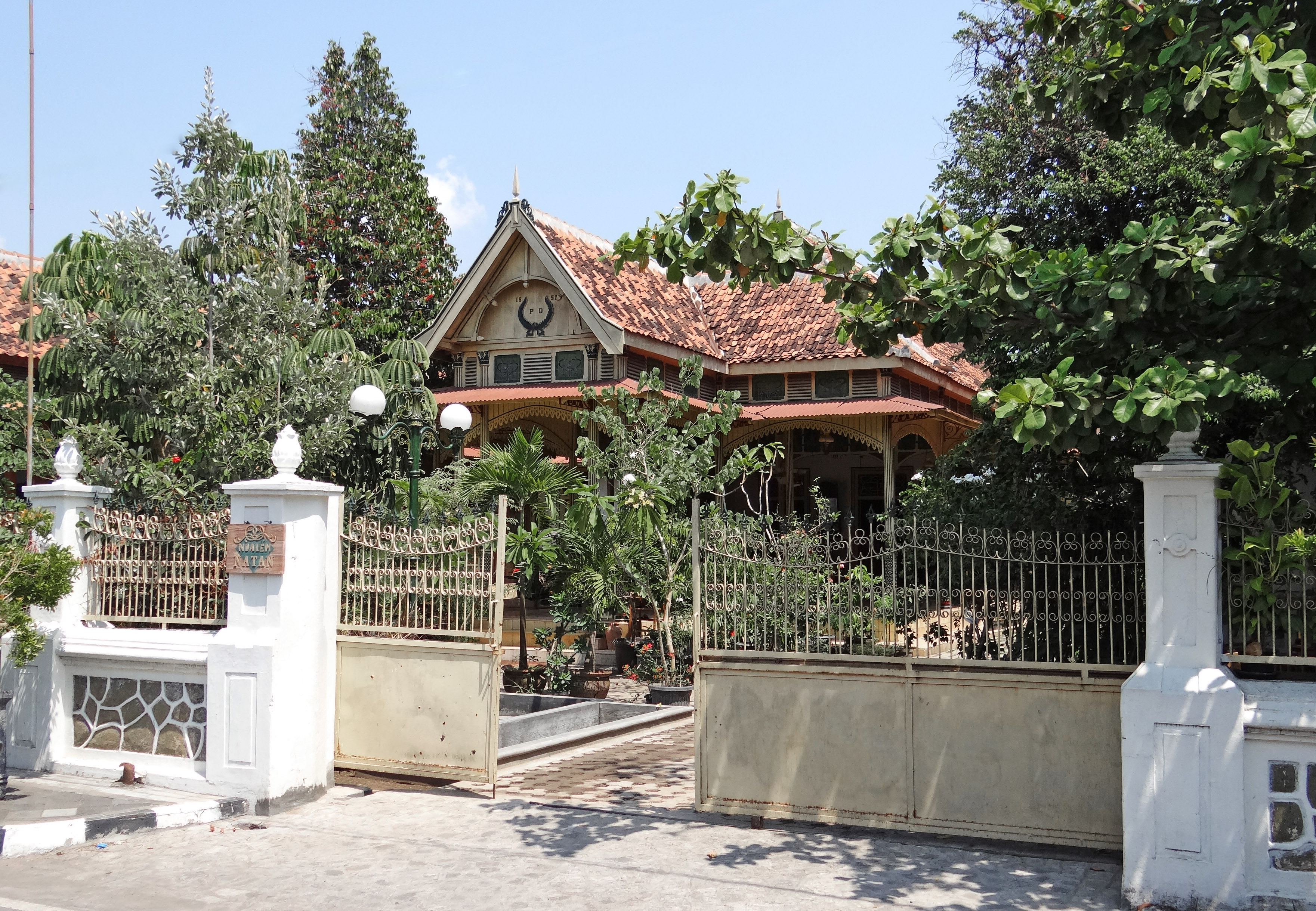 Ndalem Natan seen from outside.